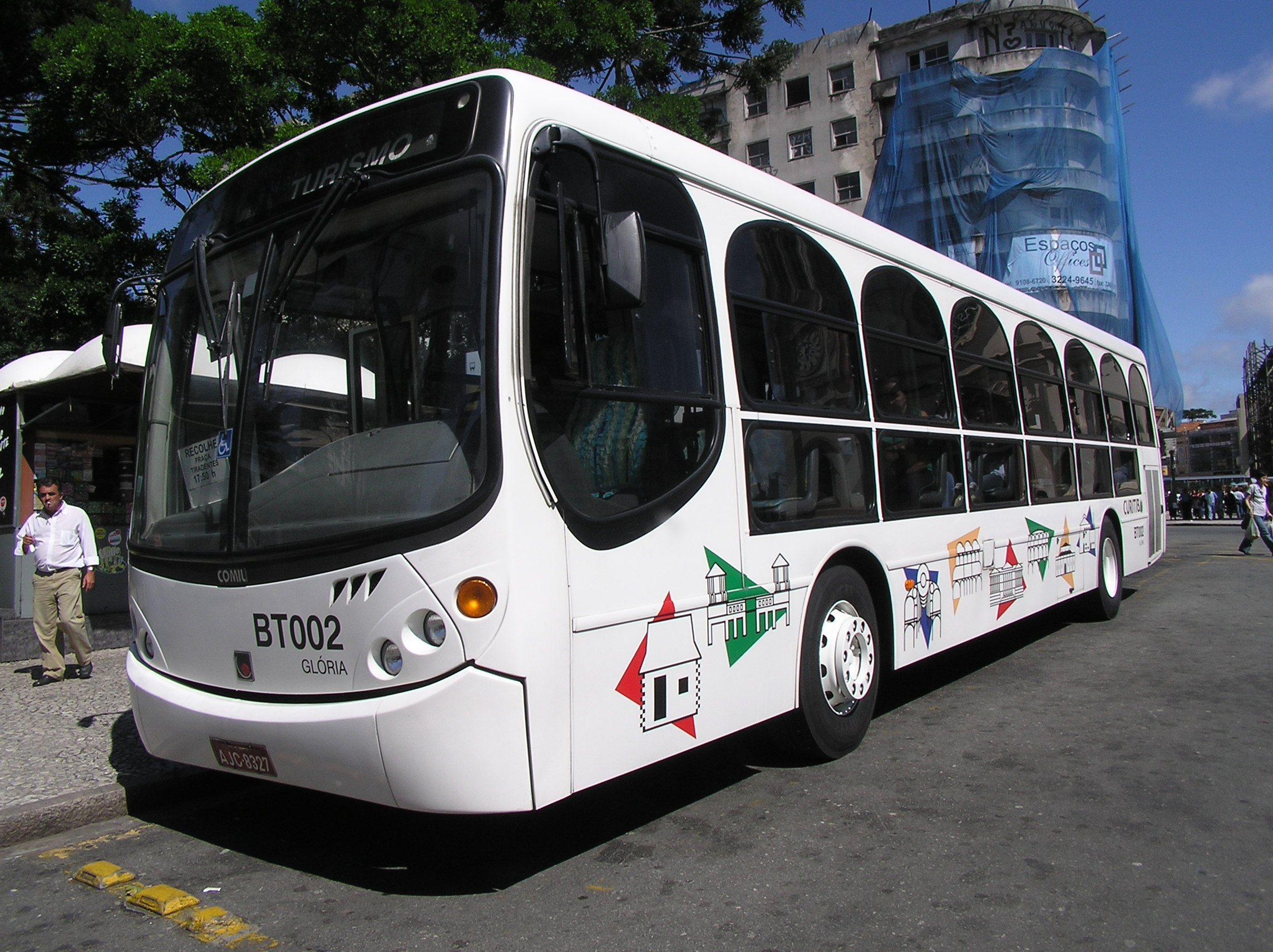 Special tour bus in Curitiba, Paraná, Brazil. Linha Turismo. Comil bus (reg. AJC-8327, #BT002) with unknown chassis.